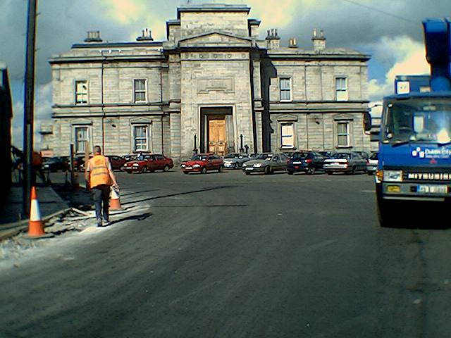 The Broadstone. Former terminus of the Midland Great Western Railway in Dublin. Now used as offices by CIE.